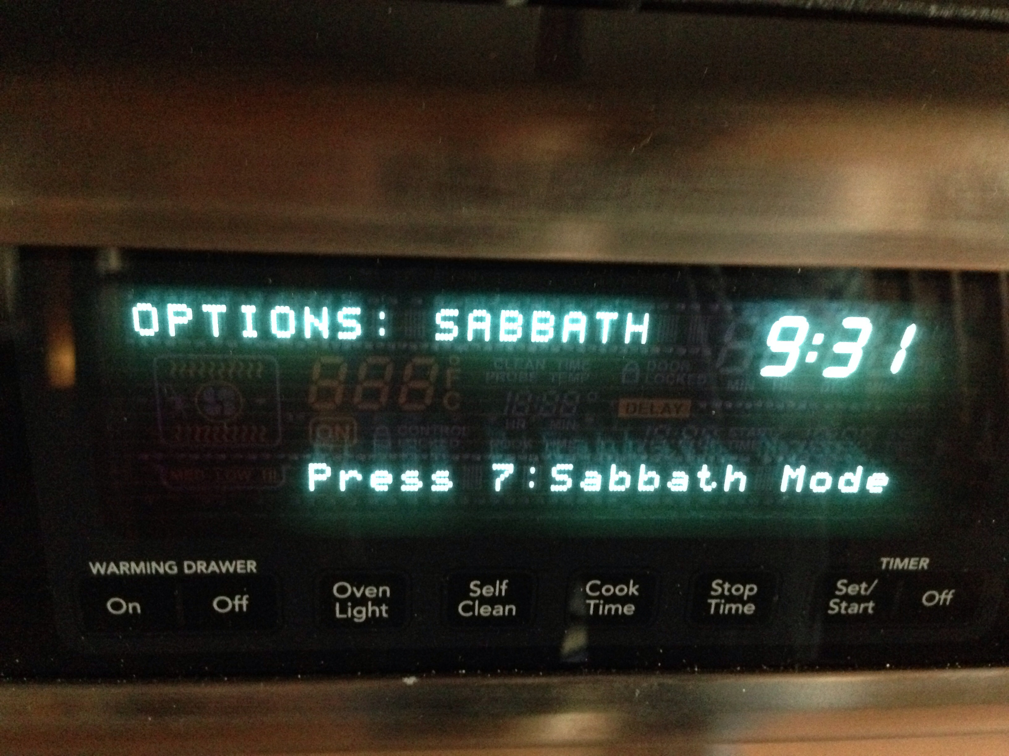 Sabbath mode is a feature in many modern home appliances, including ovens and refrigerators, which is intended to allow the appliances to be used (subject to various constraints) by Shabbat-observant Jews on the Shabbat and Jewish holidays.